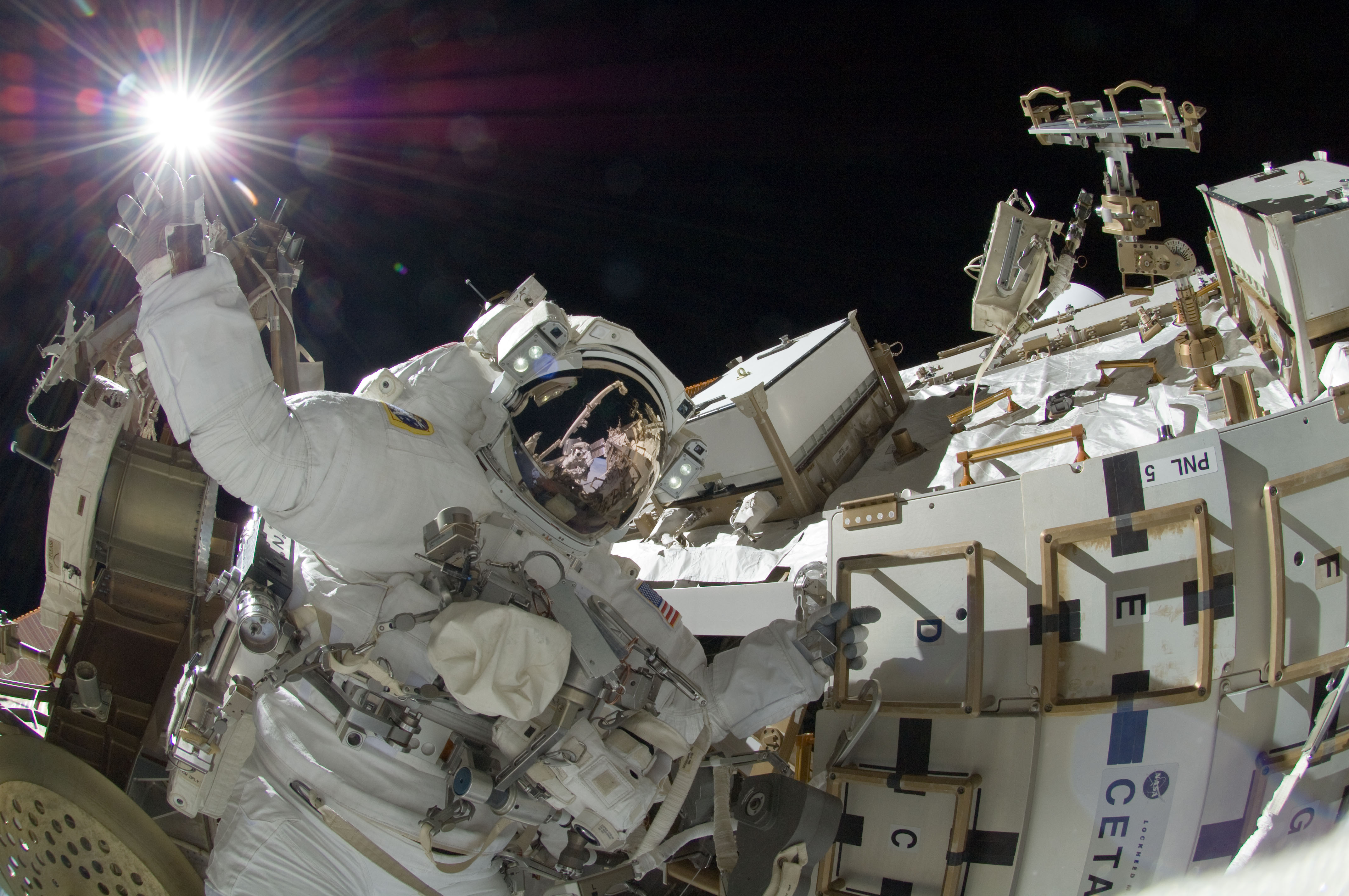 NASA astronaut Sunita Williams, Expedition 32 flight engineer, appears to touch the bright sun during the mission’s third session of extravehicular activity (EVA) on Sept. 5, 2012. During the six-hour, 28-minute spacewalk, Williams and Japan Aerospace Exploration Agency astronaut Aki Hoshide (visible in the reflections of Williams’ helmet visor), flight engineer, completed the installation of a Main Bus Switching Unit (MBSU) that was hampered by a possible misalignment and damaged threads where a bolt must be placed. They also installed a camera on the International Space Station’s robotic arm, Canadarm2.